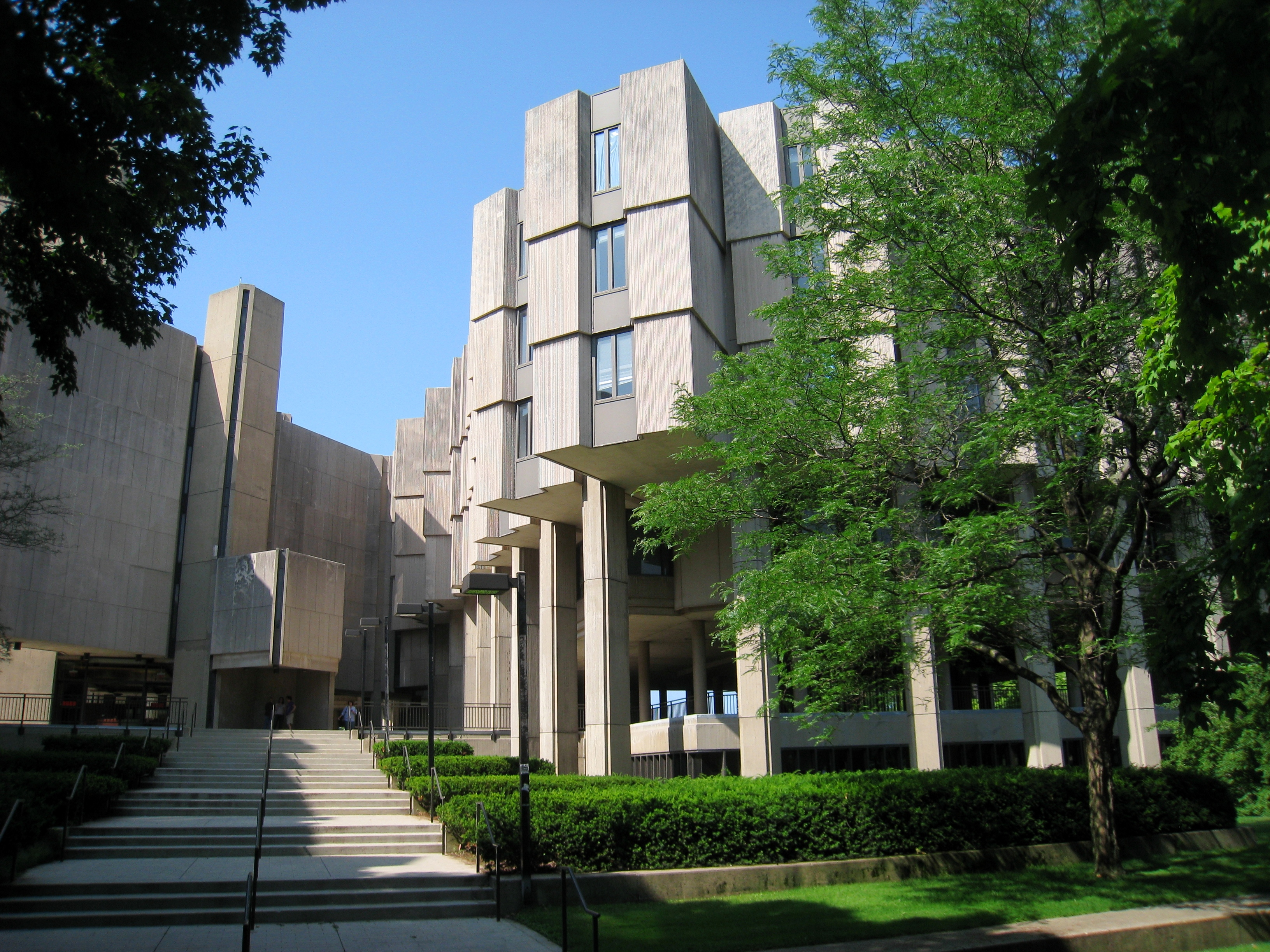 Northwestern University Library, Northwestern University, Evanston, Illinois, USA.